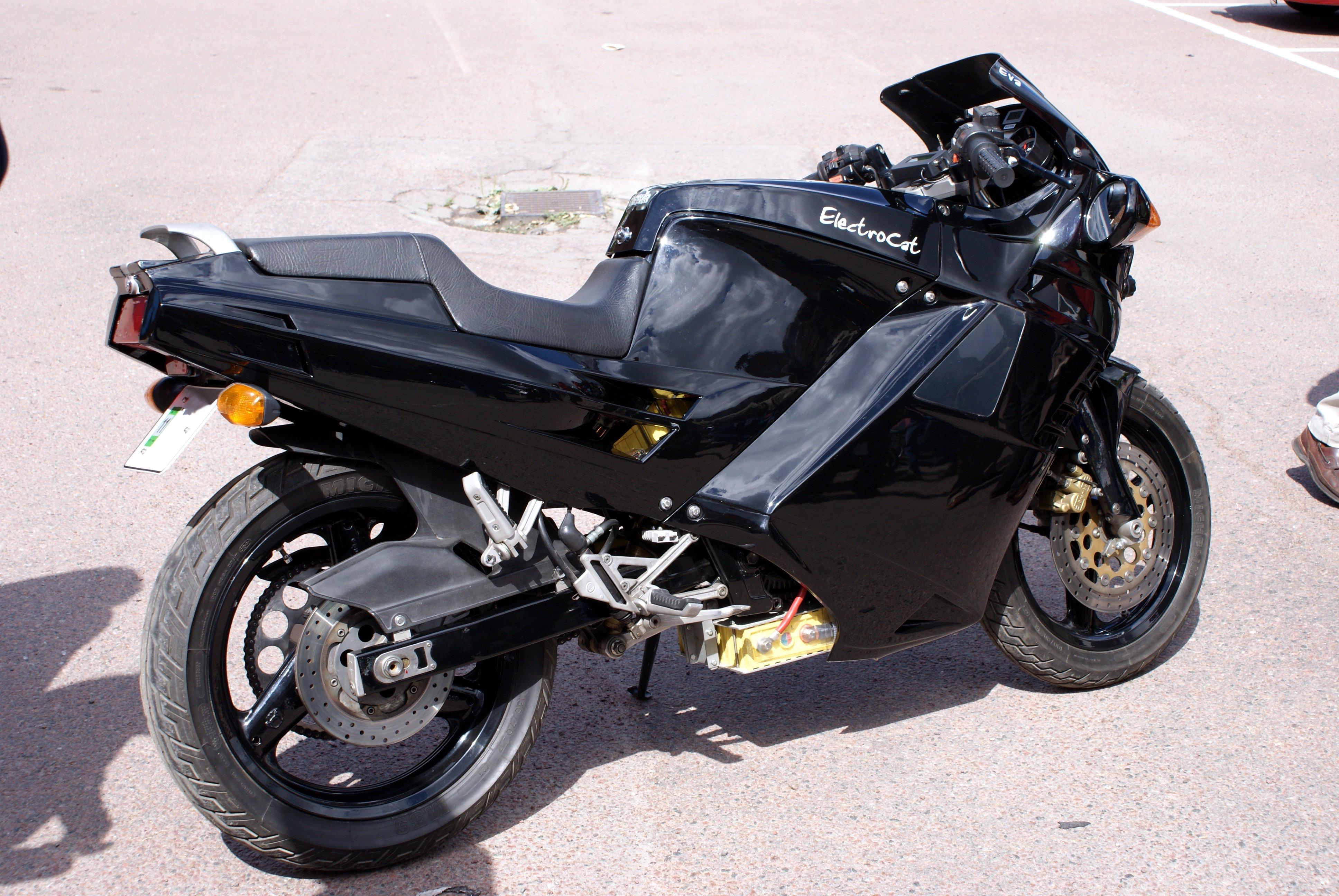 The swedish experimental electric motorcycle Electrocat